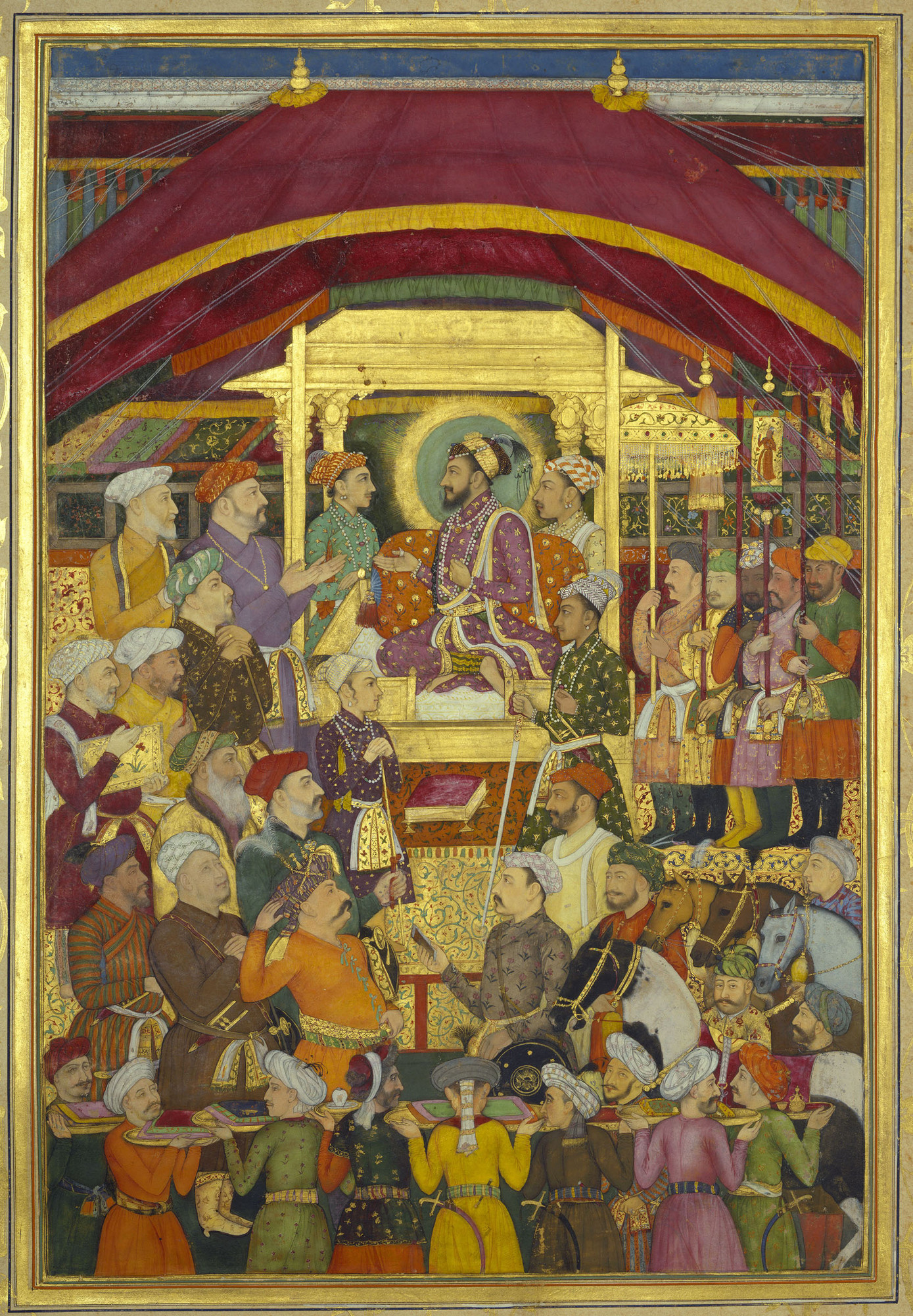 Shah Jahan receives the Persian ambassador, Muhammad-Ali Beg (26 March 1631), folio from the Windsor Padashahnama